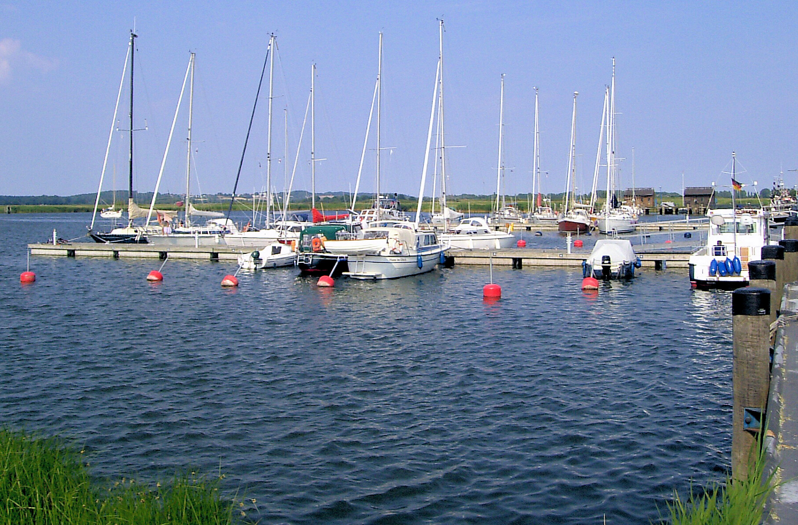 the port of Gager